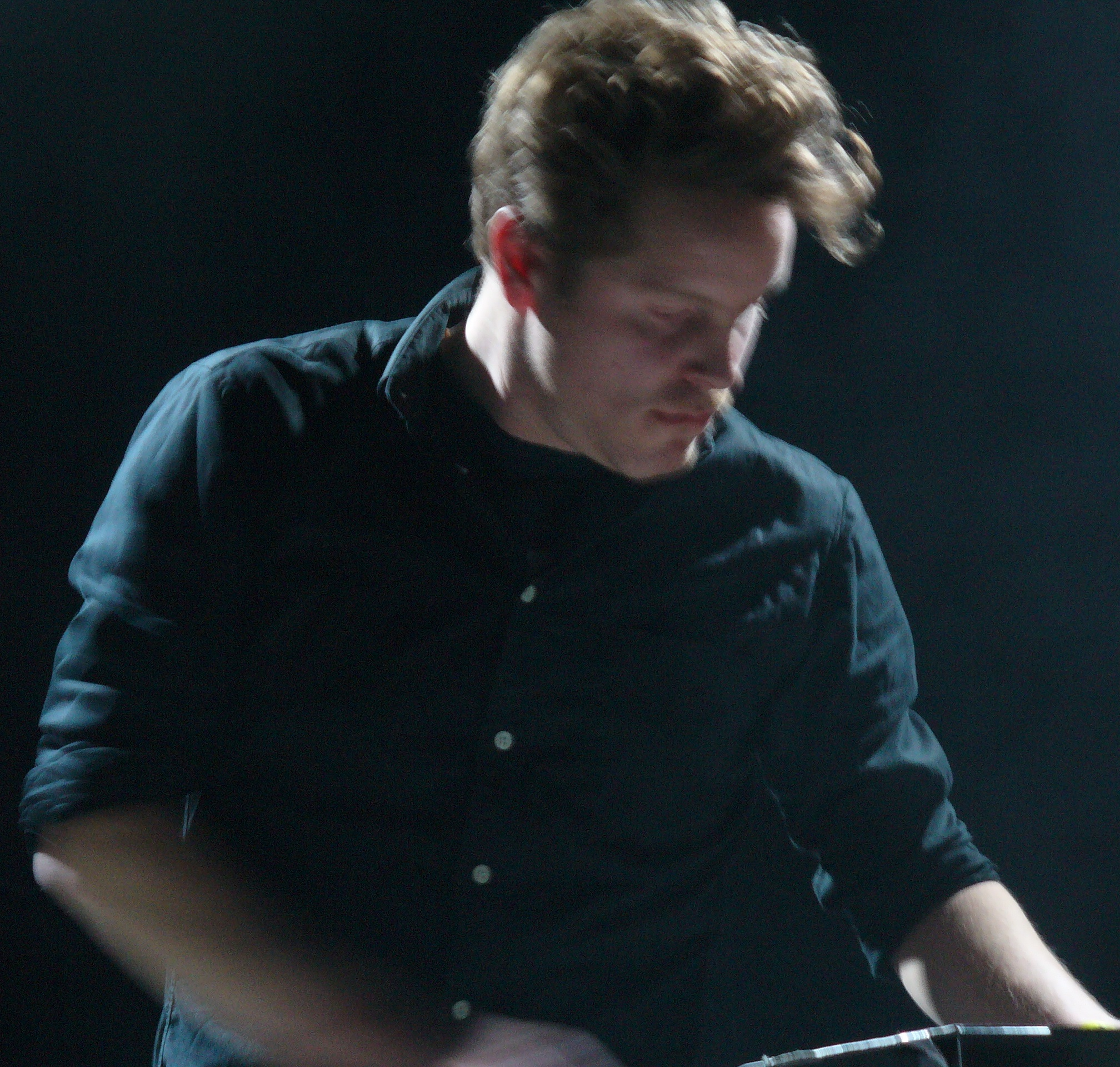 Øystein Moen at Vossajazz 2014